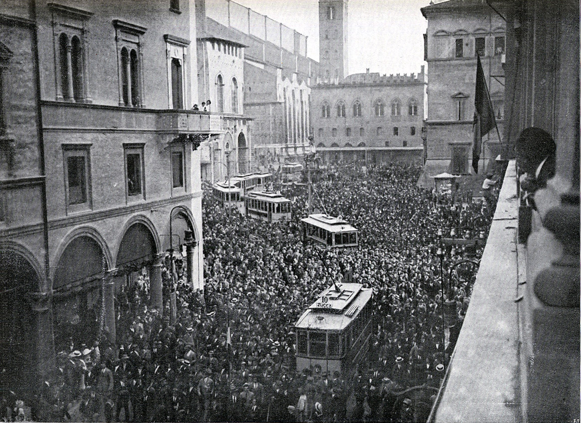 Pro-war rally in Bologna, 1914.